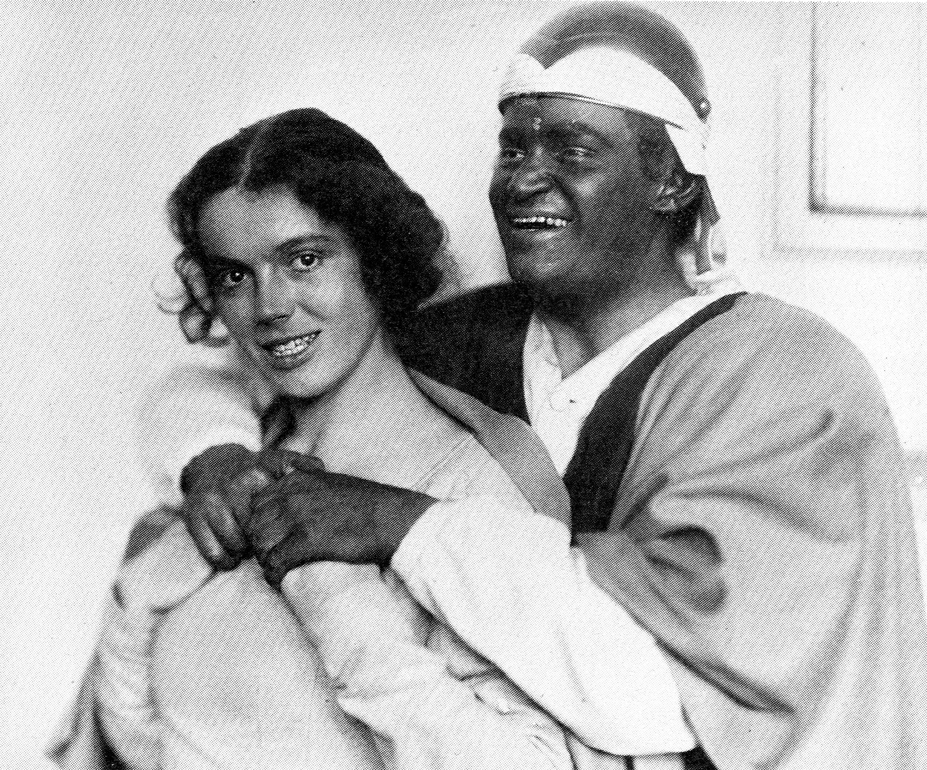 Austrian actor Fritz Kortner and German actress Johanna Hofer in Othello by William Shakespeare under the direction of Leopold Jessner at the Staatliche Schauspielhaus Berlin, November 1921